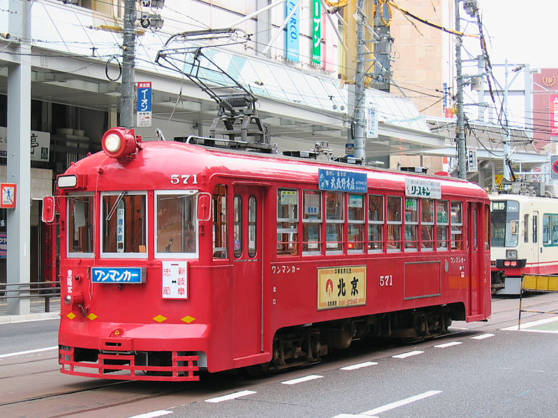 Nagoya railway Gifu tram Mo571 at Shin-Gifu-Ekimae.